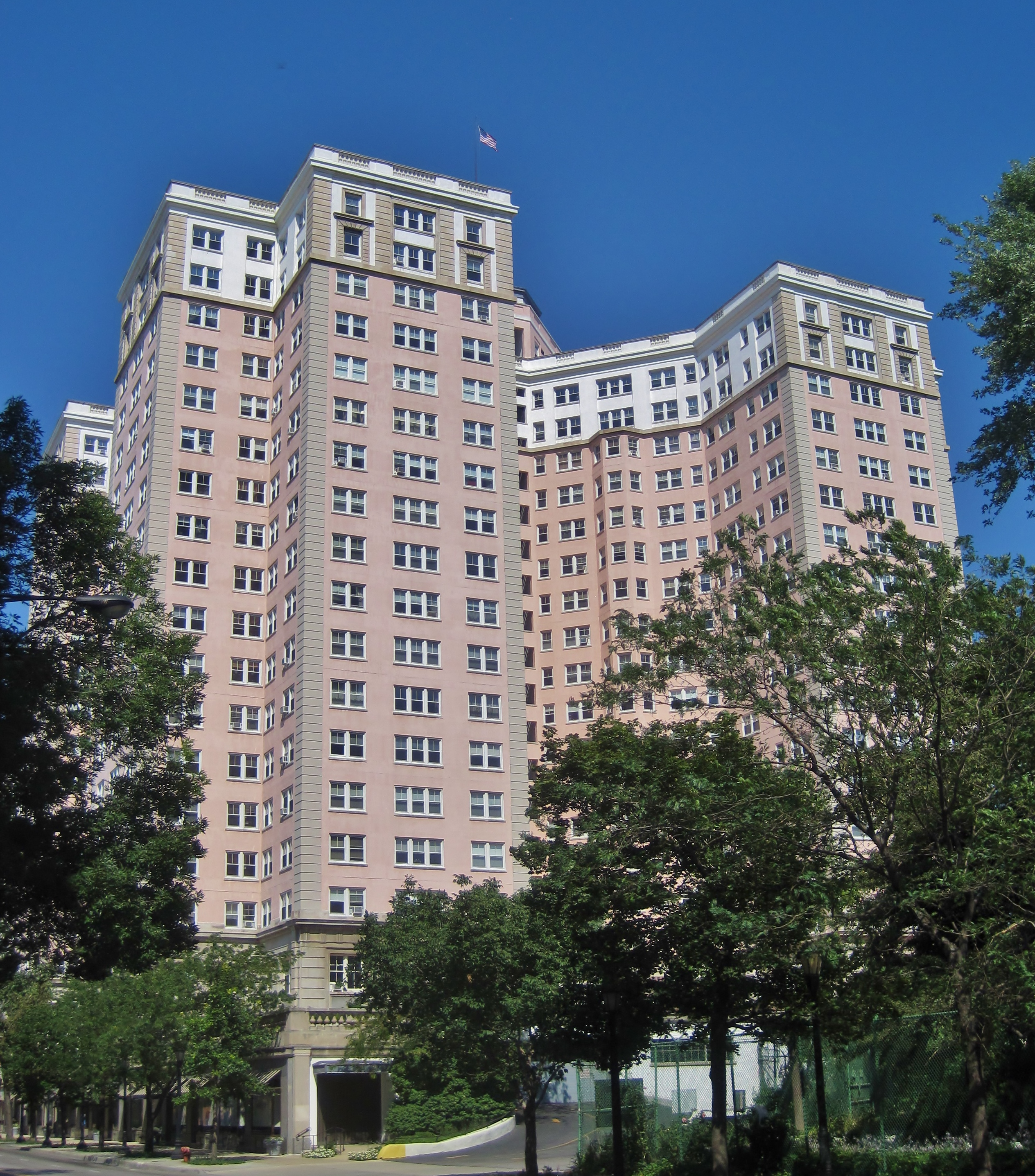 Edgewater Beach Apartments in Chicago (1928). It was part of a luxury resort complex along with the 1915 Edgewater Beach Hotel. It had a 1200 ft private beach and hosted shows from renowned big bands like Tommy Dorsey. The complex hosted its own radio station, WEBH, which is considered a precursor to WGN. Residents and guests could be transported to the Loop via the resort seaplane. The extension of Lake Shore Drive in the 1950s cut off the complex from its beacha nd sealed its fate. The hotel was demolished shortly afterward.